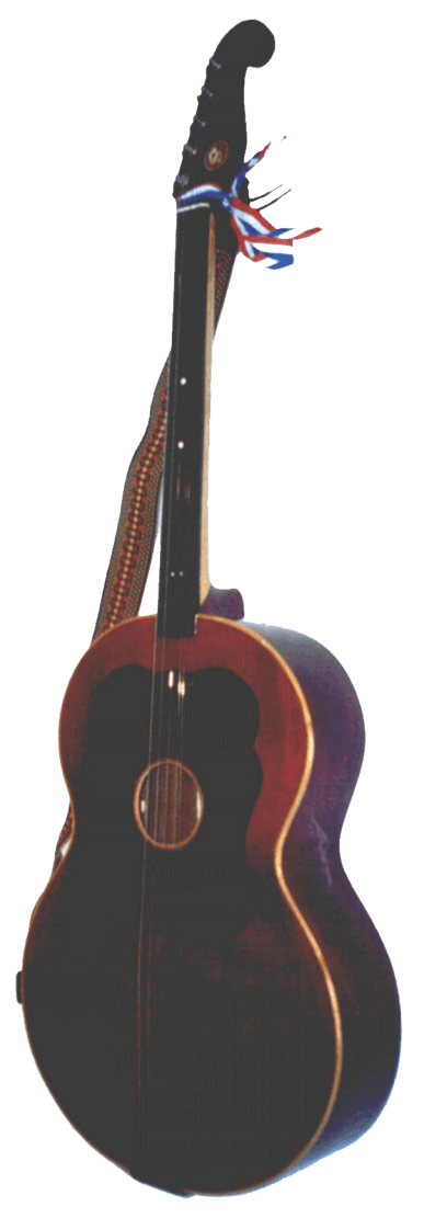 Bugarija, a Croatian instrument used in tamburica ensembles.